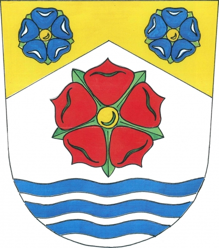 Coat of arms of Bohdalín, Pelhřimov District